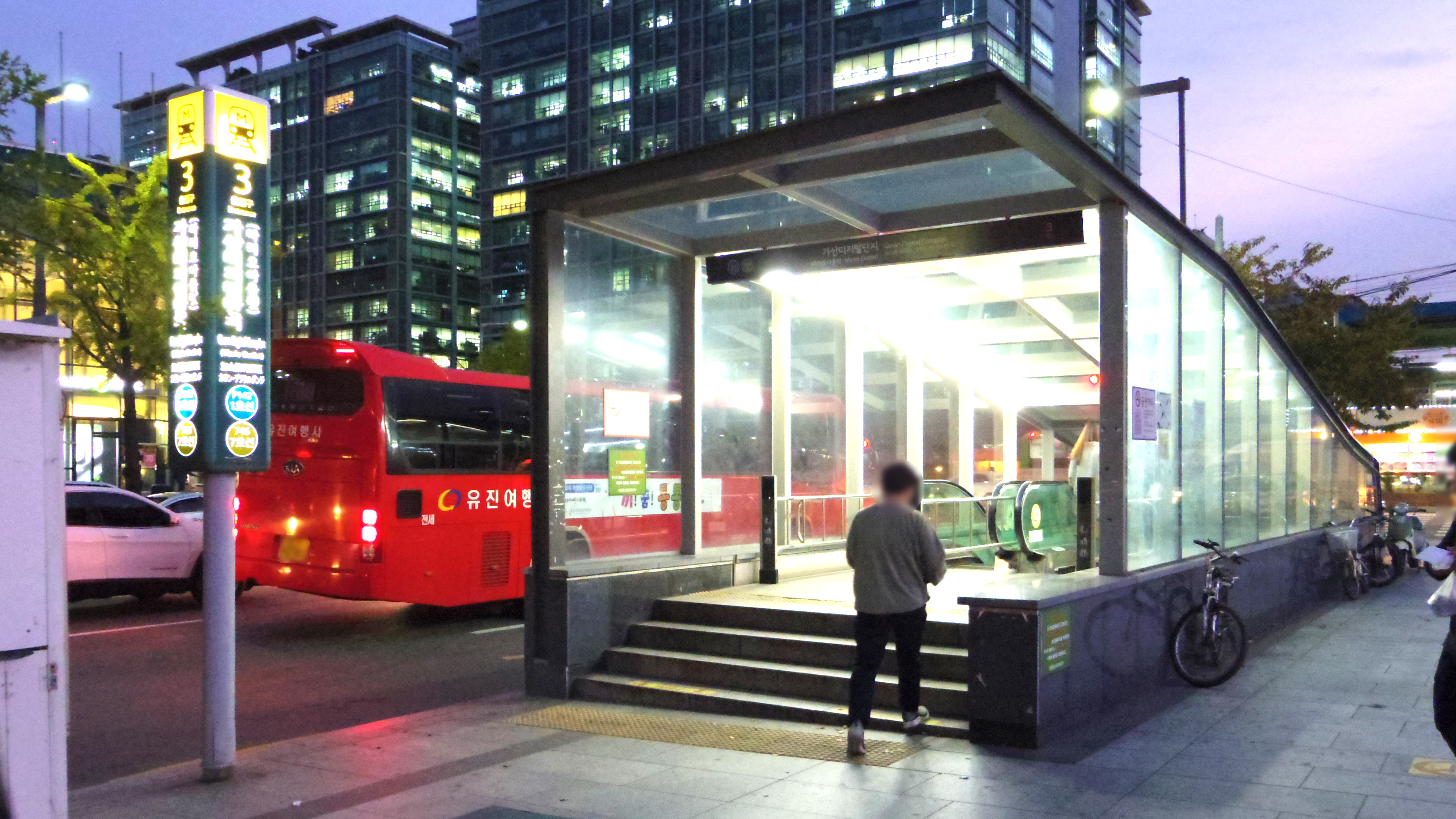 The no.3 entrance to Gasan Digital Complex Station on the Seoul Metro Line 7 and Line 1 in Geumcheon-gu, Seoul, Republic of Korea(South Korea)